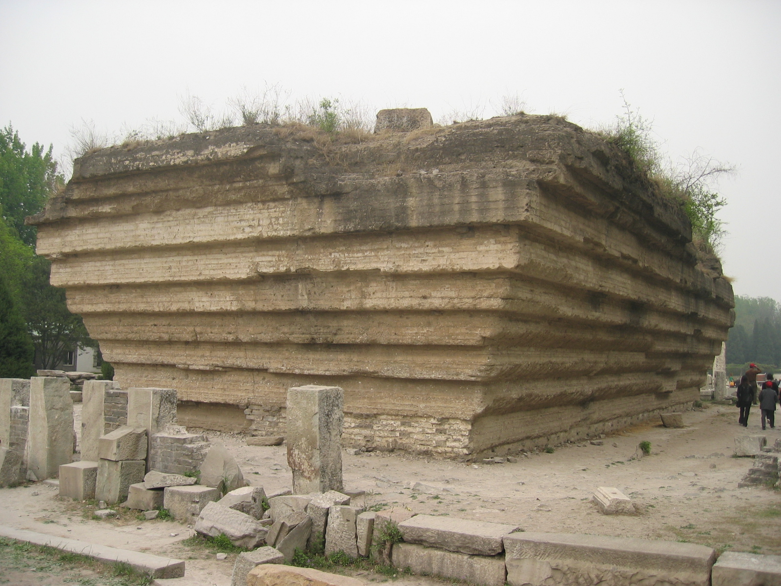 The Hai Yan Tang in the Xiyang Lou (Western mansions) area on the grounds of the Yunamingyuan (Old Summer Palace) — in Beijing. The central structure is the former pedestal for a water basin used to supply the nearby waterworks.